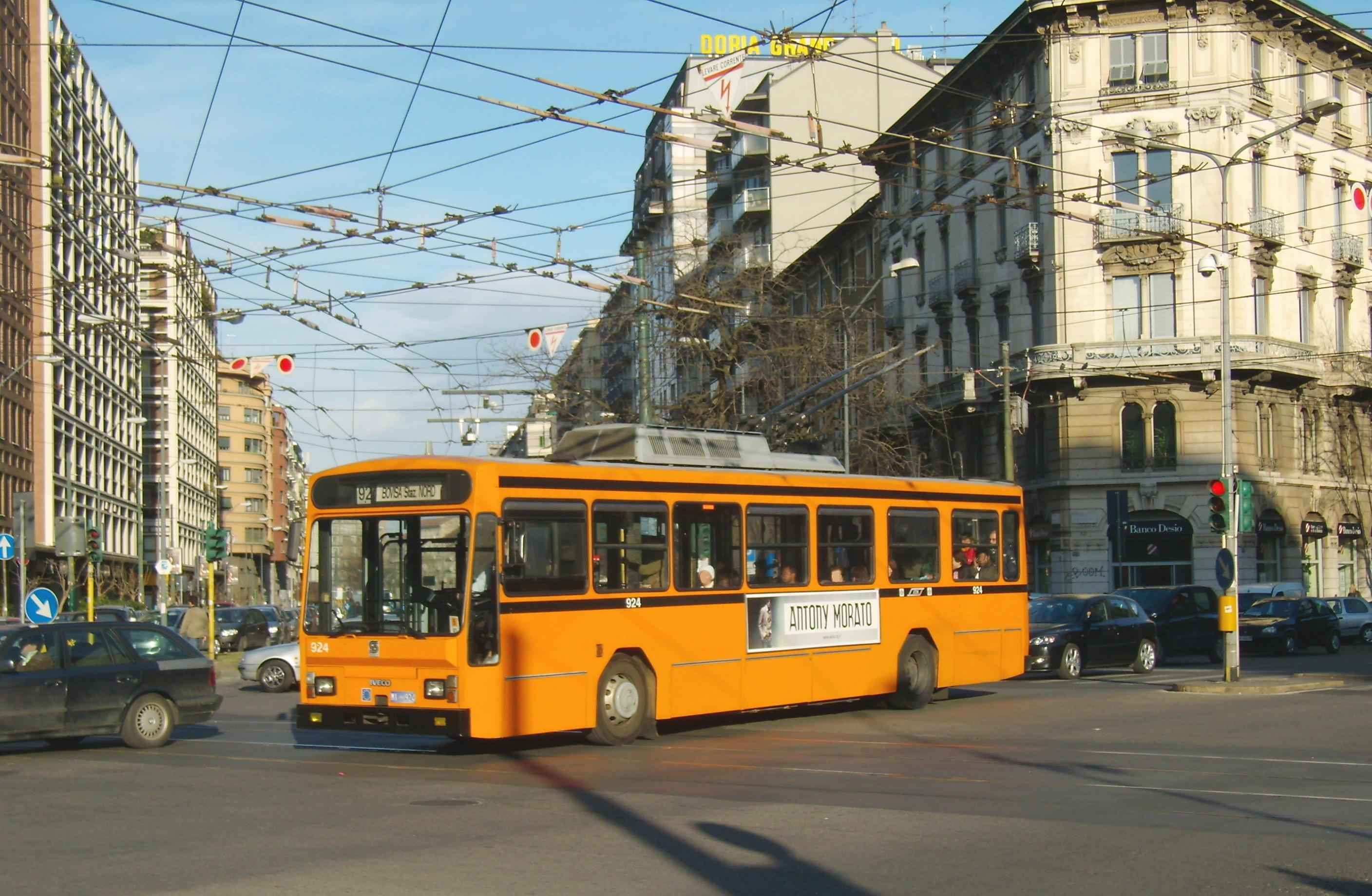 Iveco 2470.12 trolleybus in Milan, Italy. Year built 1983. ATM Milano company.